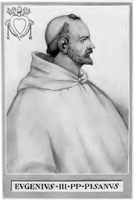 This illustration is from The Lives and Times of the Popes by Chevalier Artaud de Montor, New York: The Catholic Publication Society of America, 1911. It was originally published in 1842.